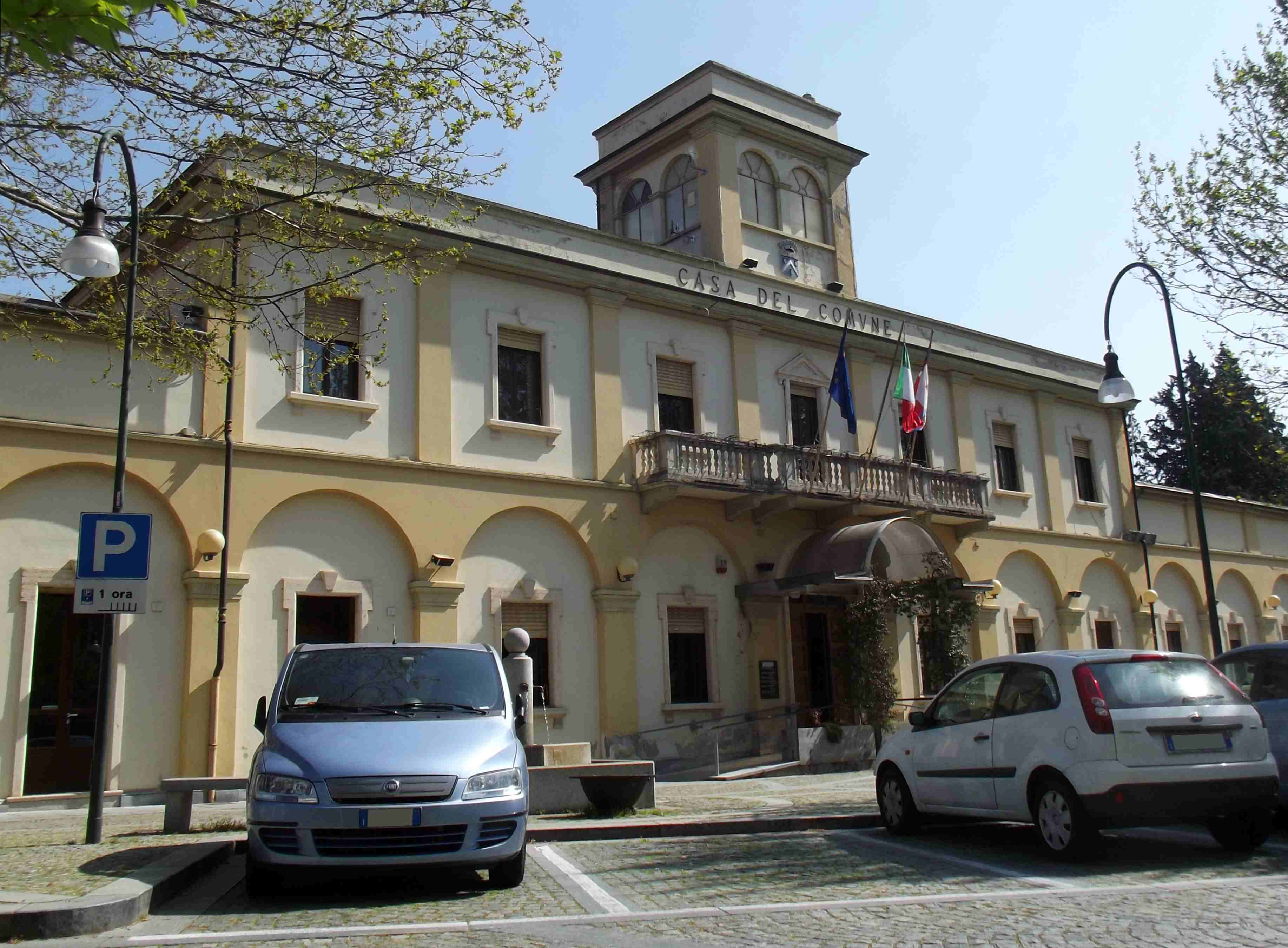 Almese (TO, Italy): town hall